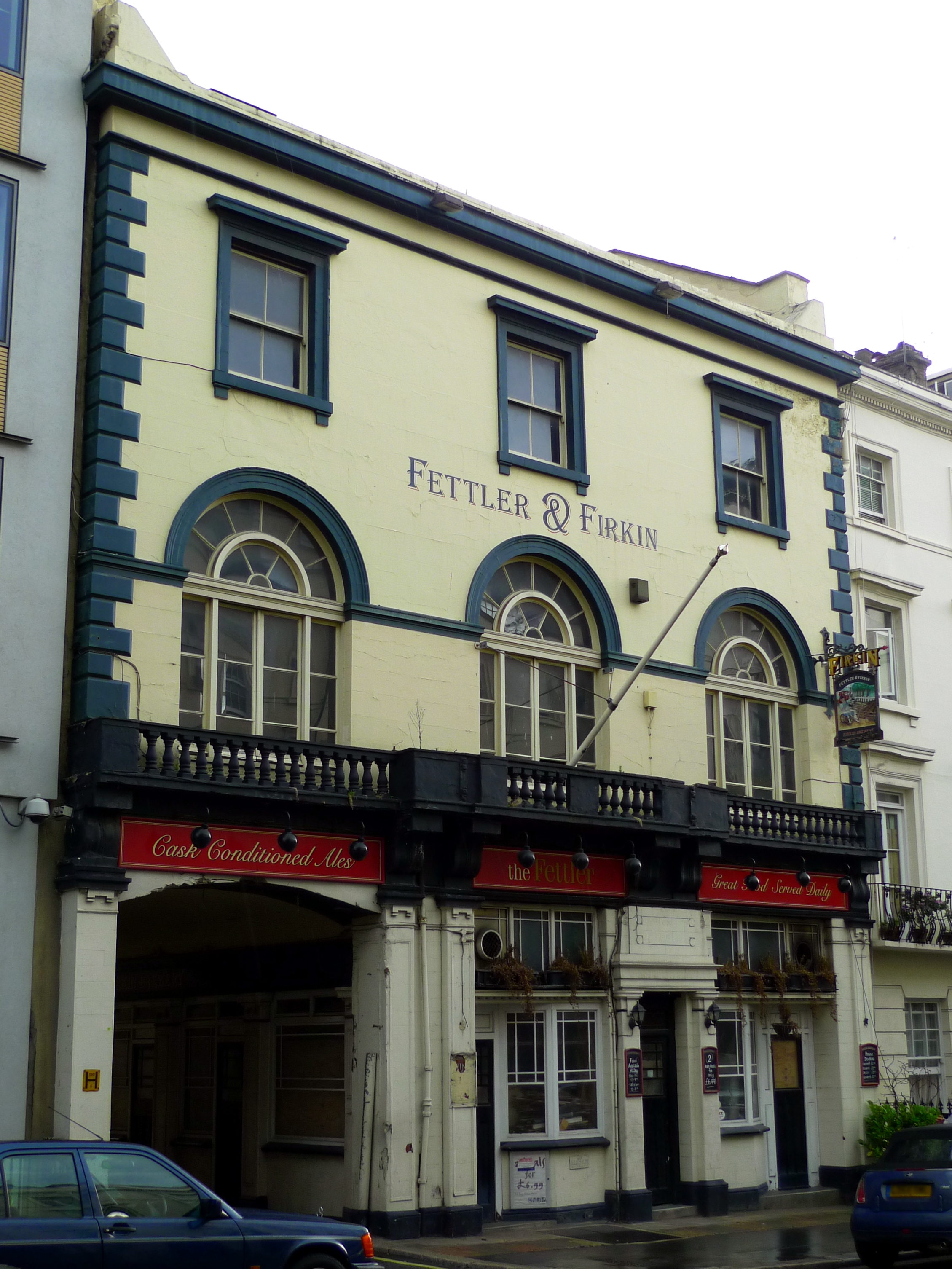 A former Firkin pub, now closed and since converted to residential.. (It was in the Good Beer Guide as The Queen's Railway Tavern.) Address: 15 Chilworth Street. Forner Name(s): The Fettler and Firkin; The Queen's Railway Tavern. Owner: Punch Taverns [Spirit Group] (former); Firkin Pub Co (former). Links: Pubs Galore Beer in the Evening Pubs History (history)